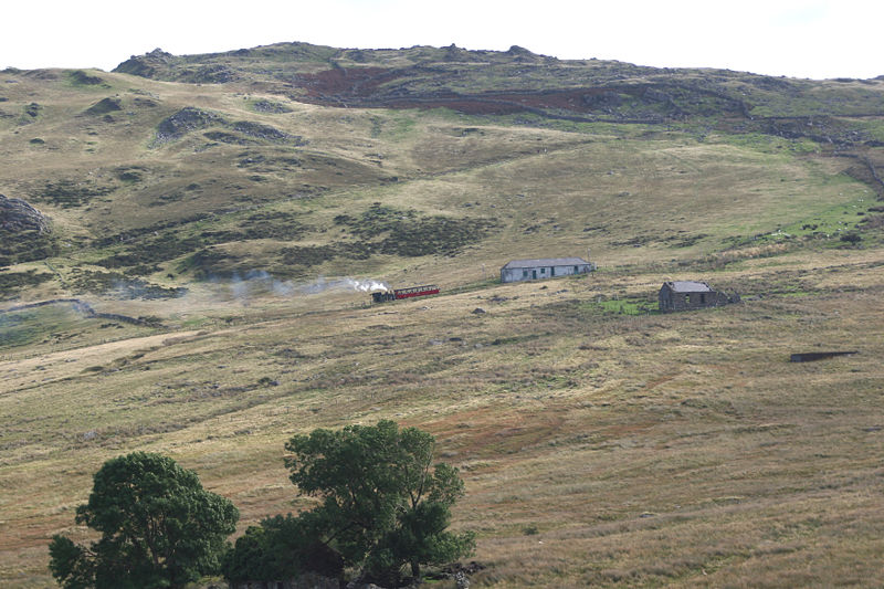 Snowdon Mountain Railway - train approaching Hebron station across Cwm Brwynog